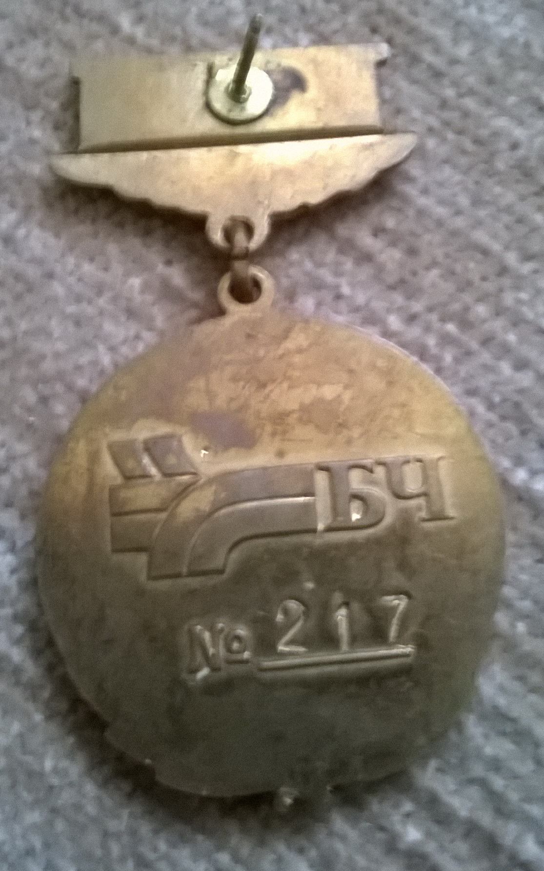 Excellent pupil Rail transport in Belarus revers